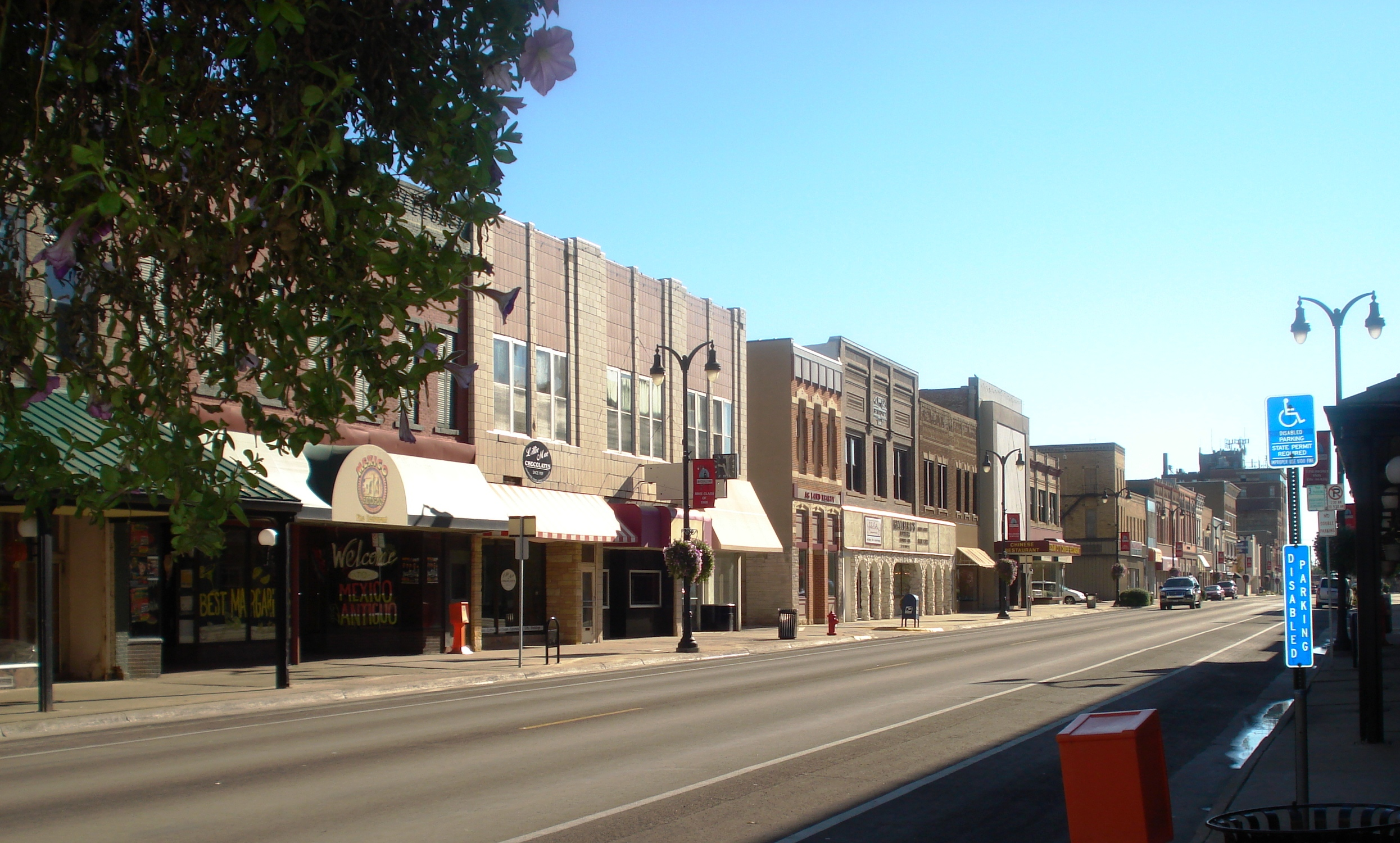 Historic Main Street Marshalltown.